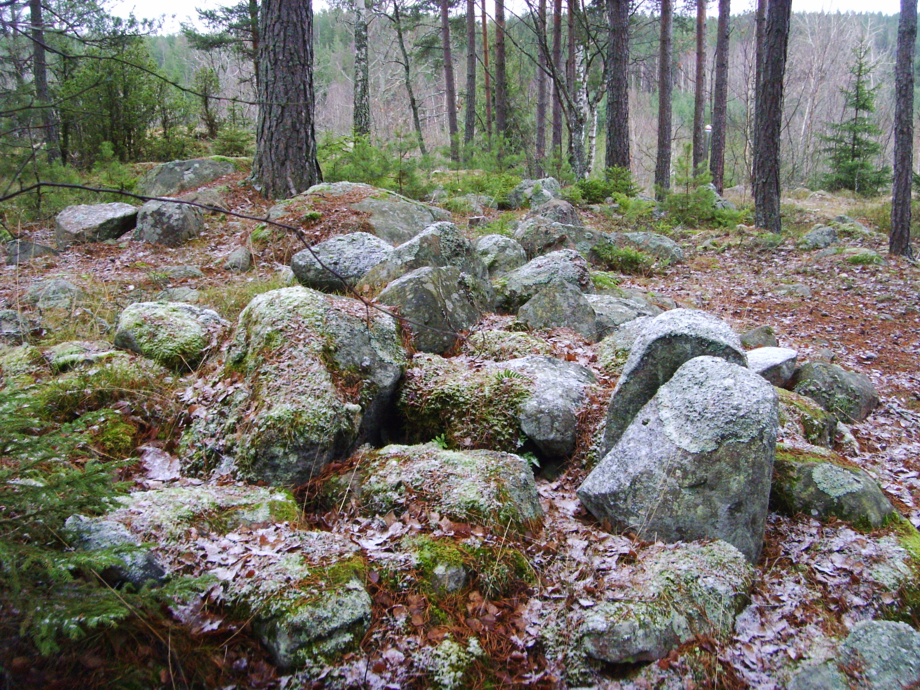 Hillfort, with the number RAÄ_Kimstad_104:1, in the parish Kimstad, is one of the smallest in Östergötland. The fort has steep cliffs on 3 sides, and a low stone wall marking the hillfort´s boundary in the south. This wall is constructed in the technique dry-stone walling, that is, built without the use of mortar, and has probably served as the foundation for a wooden palissade.